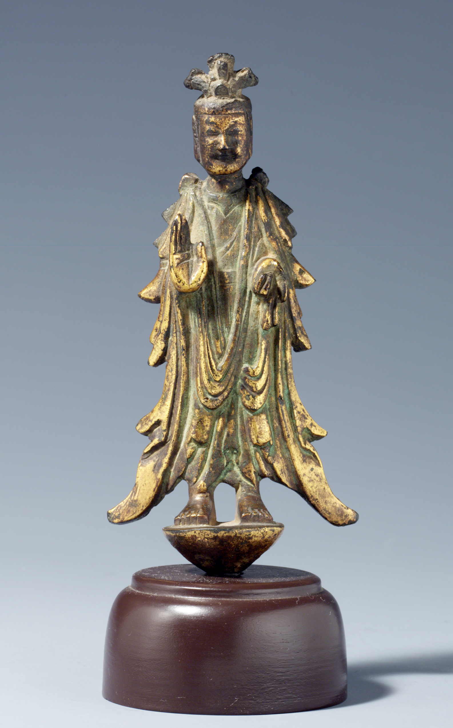 Standing Bodhisattva. Gilded bronze, H. 15.1 cm. Three Kingdoms period, second half of the 6th century. National Museum of Korea. The fallout of the garment is symmetrically divided into a series of sharp folds, perpetuating, well after its disappearance, the graphic style used in the last phase of development of Yungang caves and digging caves Longmen. Treasure of Republic of Korea No. 333